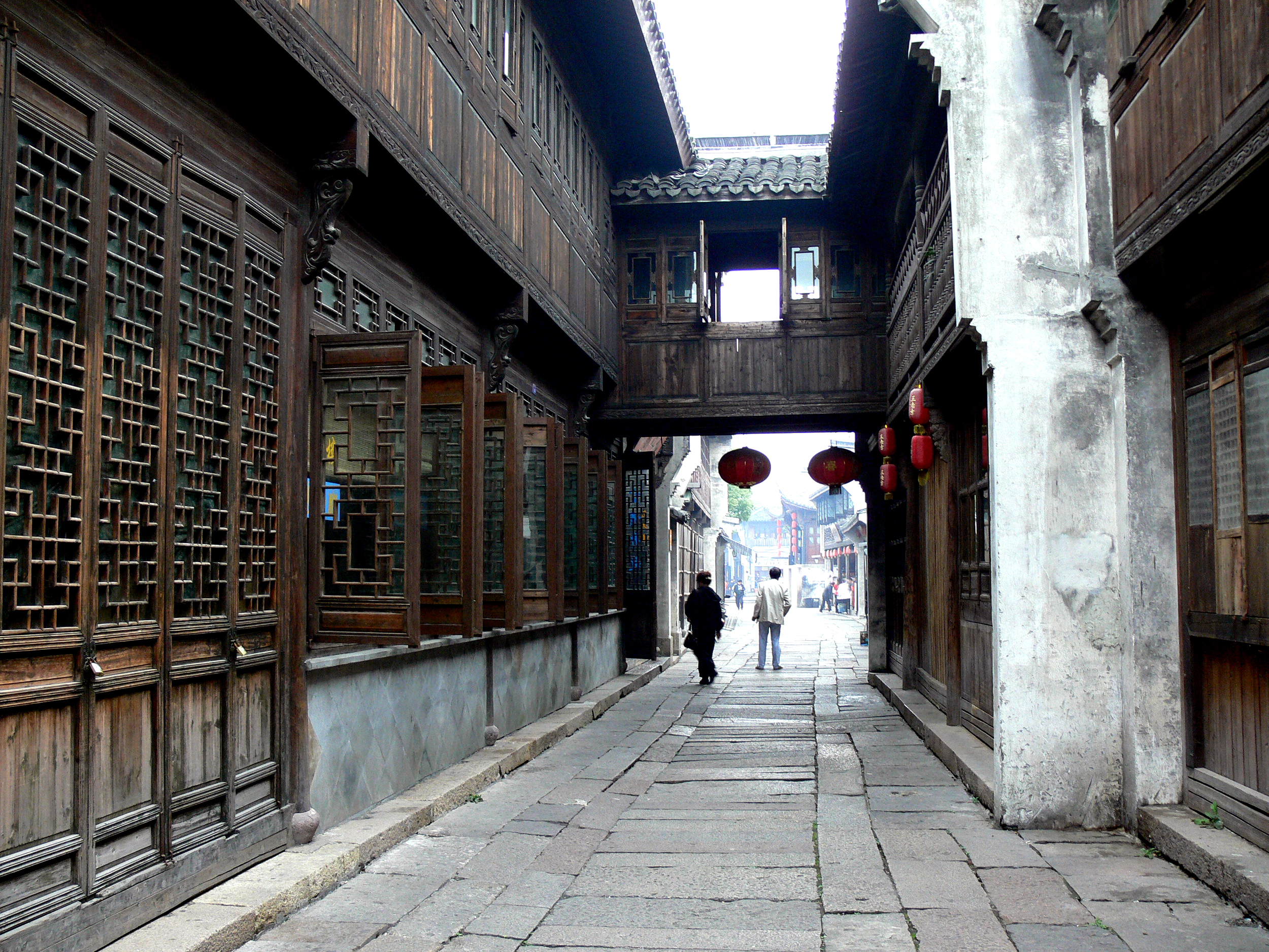 Lane way in Wuzhen